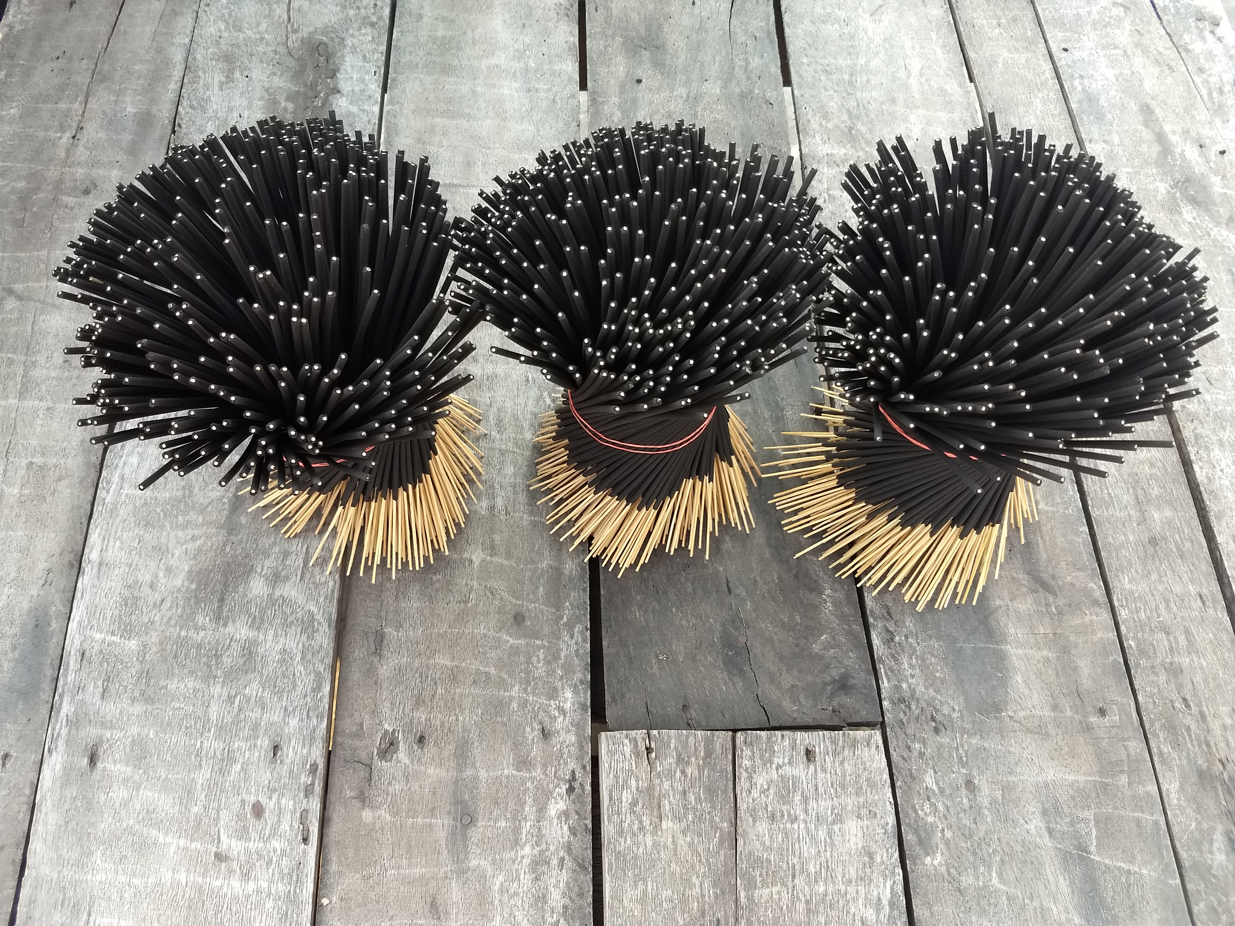 Charcoal coated Incense sticks without scented